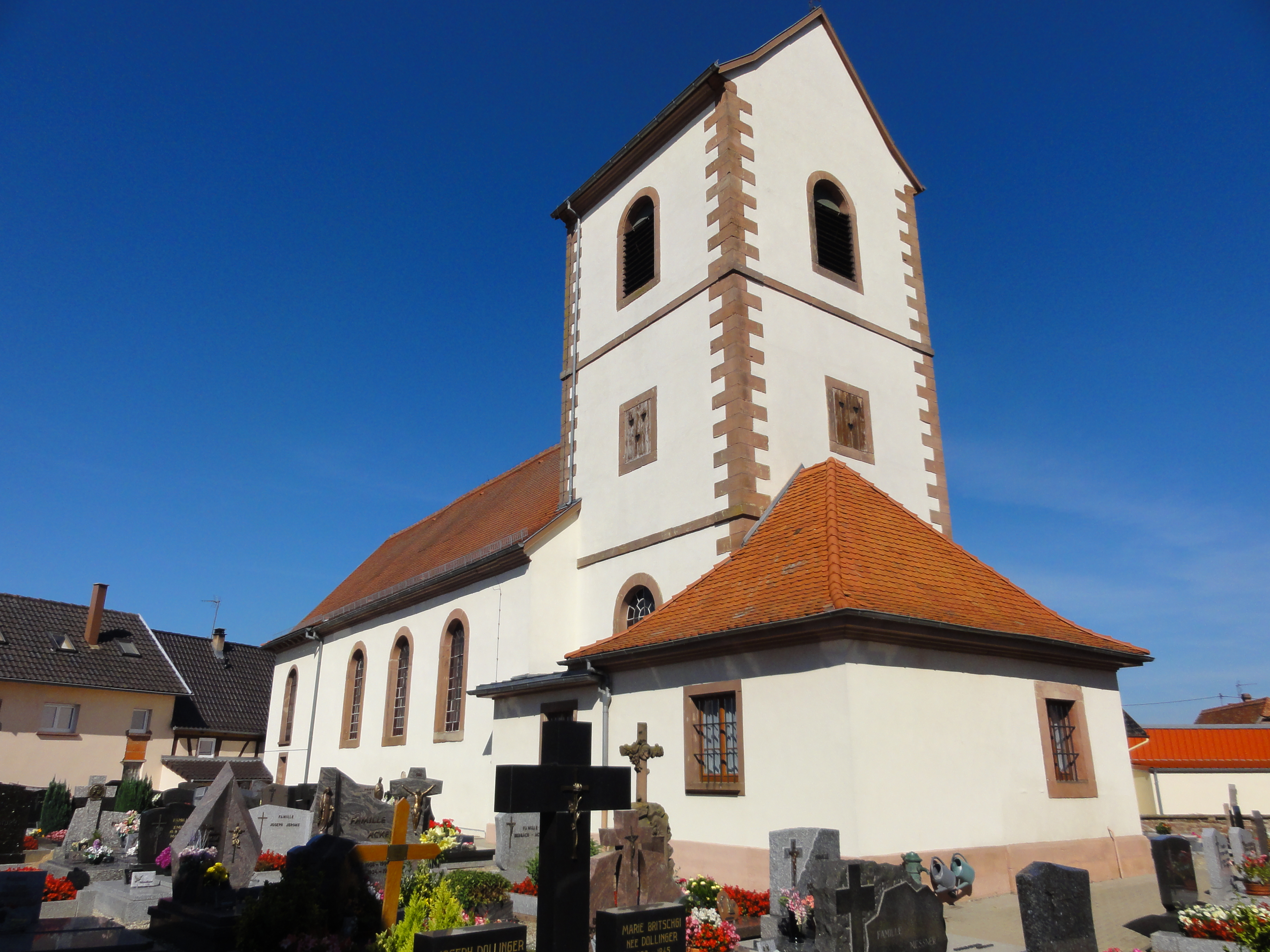 Alsace, Bas-Rhin, Wintershouse, Église Saint-Georges (IA00061835).